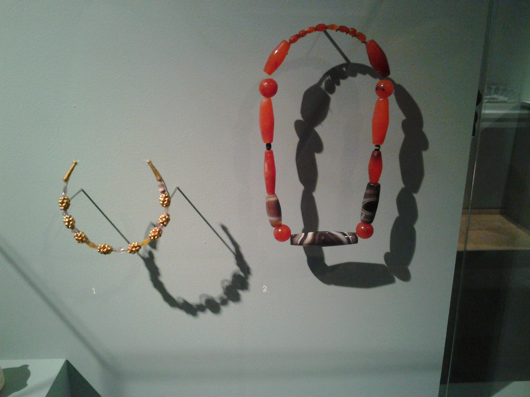 Necklaces found in grave of wealthy women from Tylos period. Exhibit in Bahrain National Museum.